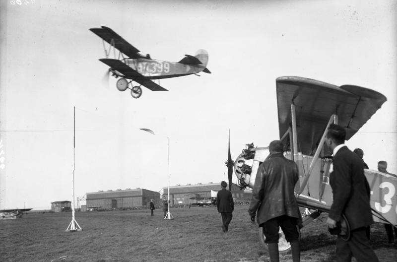 Possibly Dietrich DP IIa Bussard, D-399?